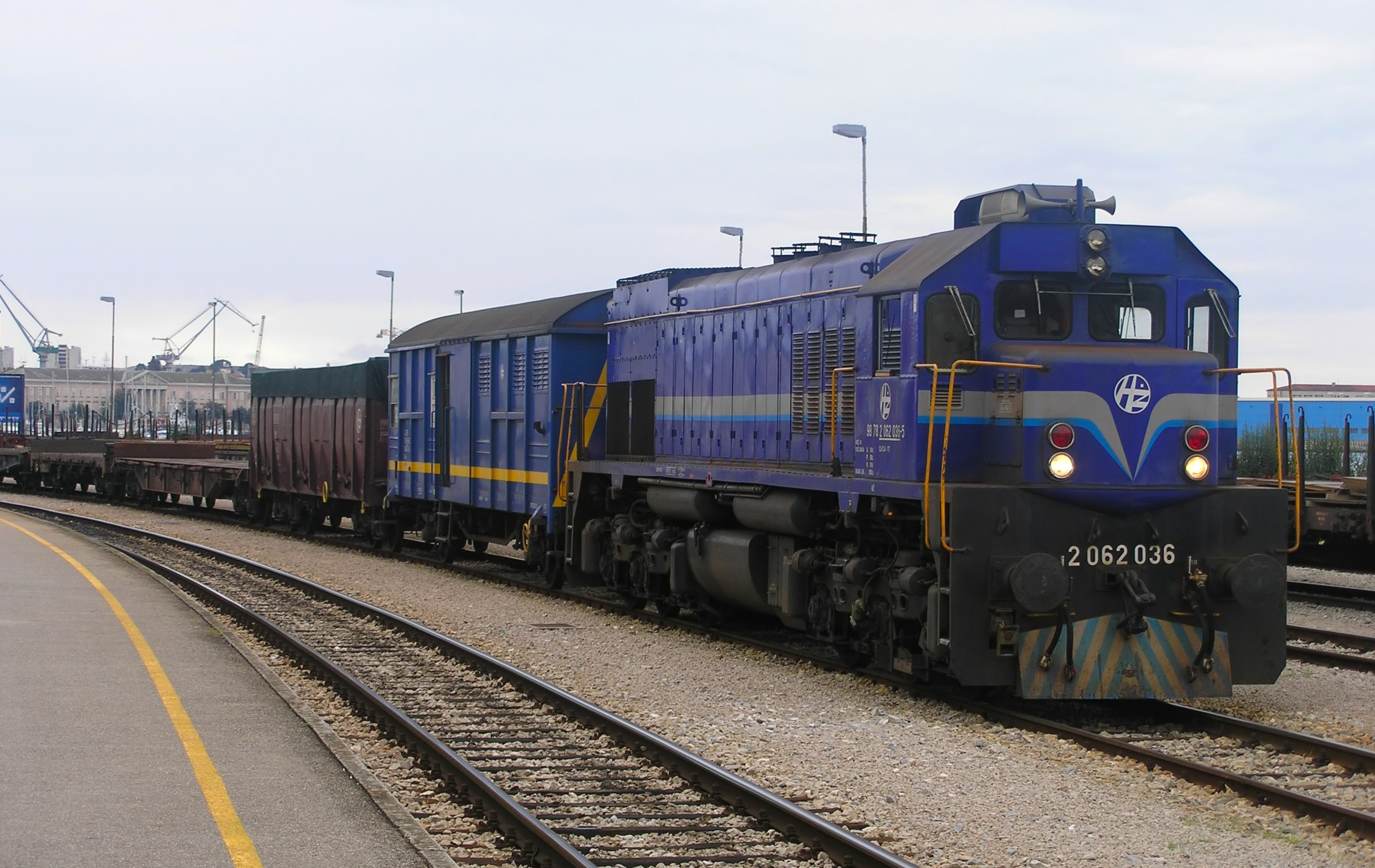 Croatian series 2062 diesel locomotive (EMD G26) in Pula railway station, Croatia